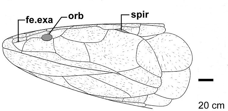 Skull and shoulder-girdle restorations. left lateral view of Eusthenodon waengsjoei, shoulder-girdle omitted.